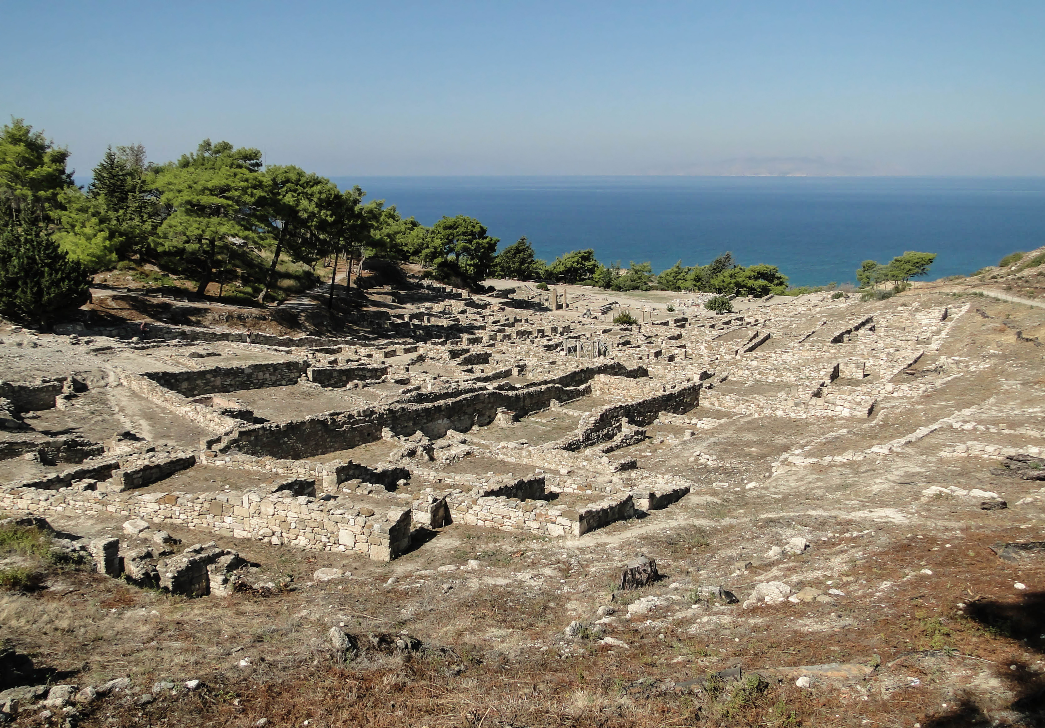 View of the site of Kameiros looking North, Rhodes, Greece